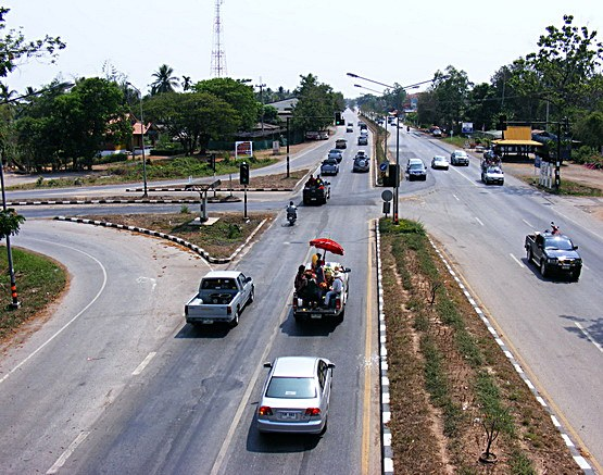 Thai Highway 11 Location: Ban Khung Taphao, Khung Taphao subdistrict, Mueang Uttaradit, Uttaradit Province, Thailand.